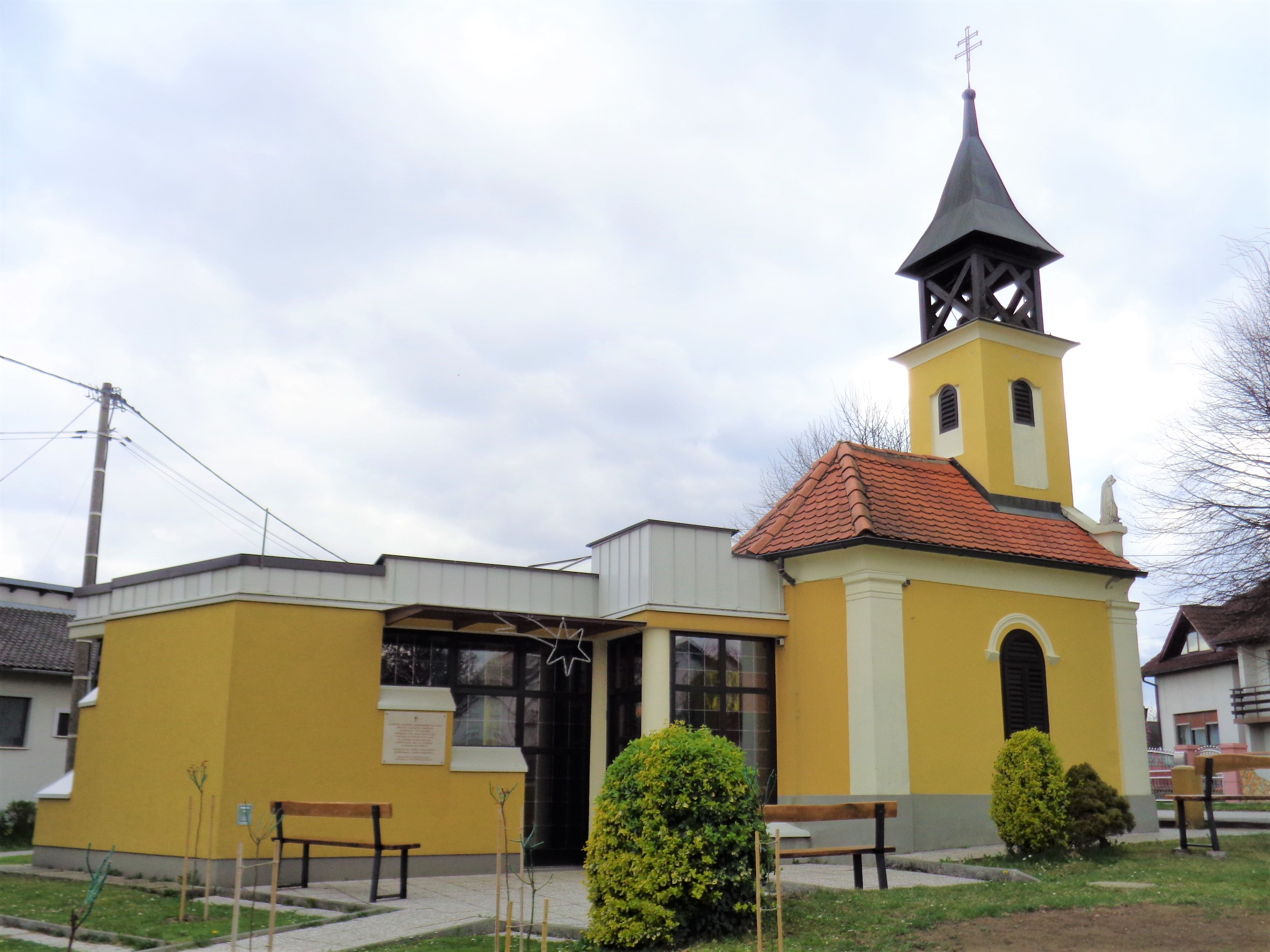 Knezovec village, Šenkovec municipality, Međimurje County, Croatia - church